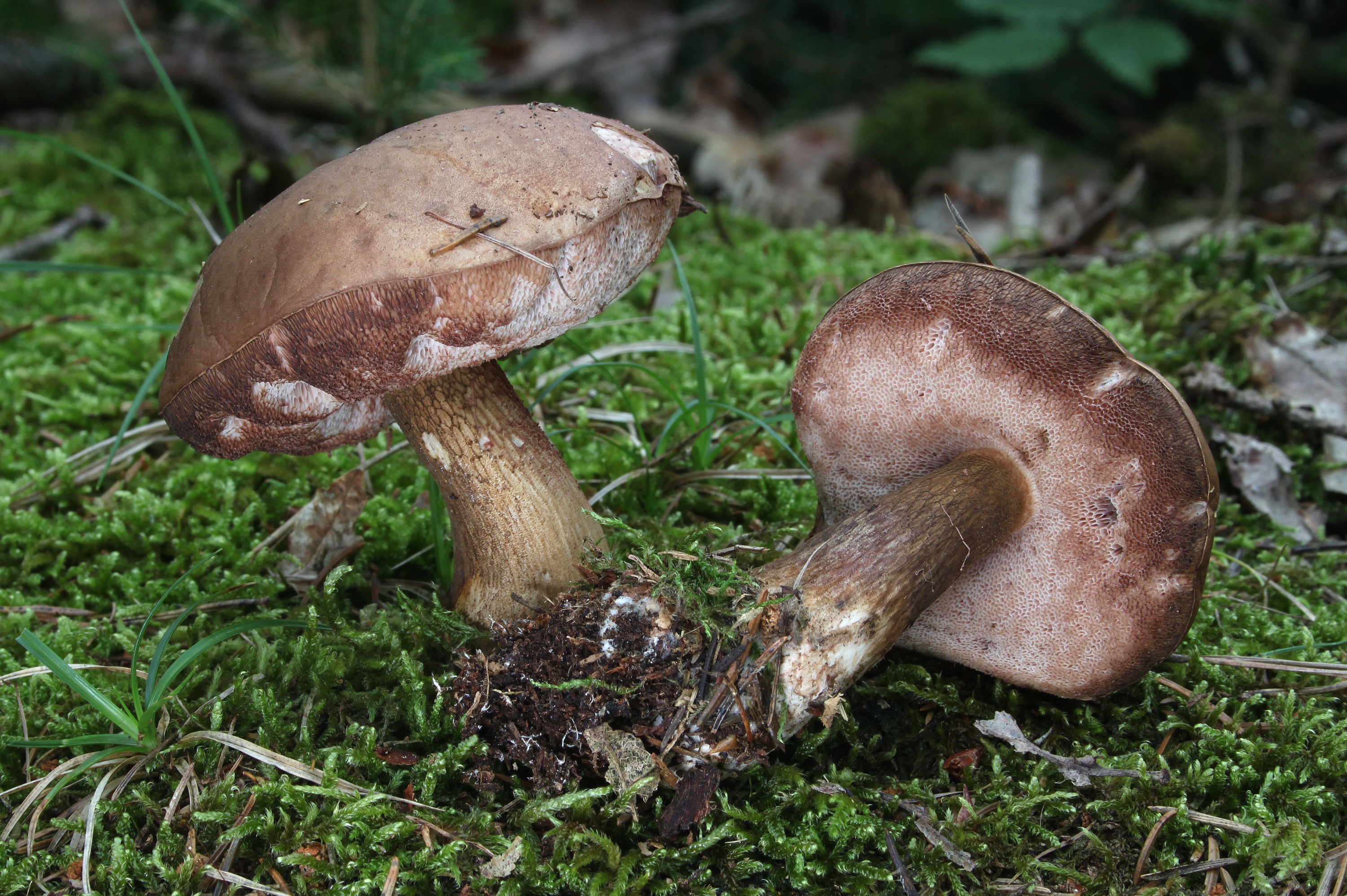 Tylopilus felleus, Family: Boletaceae, Location: Germany, Ulm, Ringingen